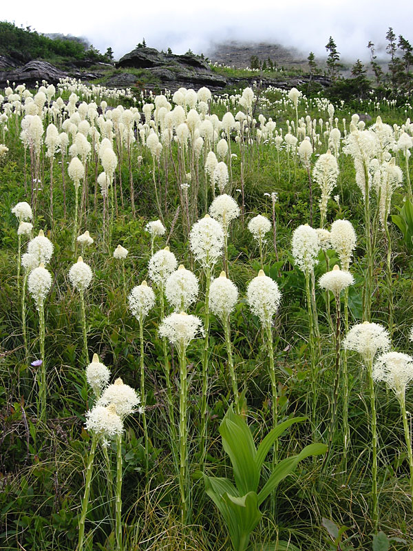 Beargrass (Xerophyllum tenax) in Glacier National Park, Montana, USA. Original caption: In addition to a host of various wildflowers, Beargrass, a lily native to Glacier, blooms in abundance along the Iceberg Lake trail.